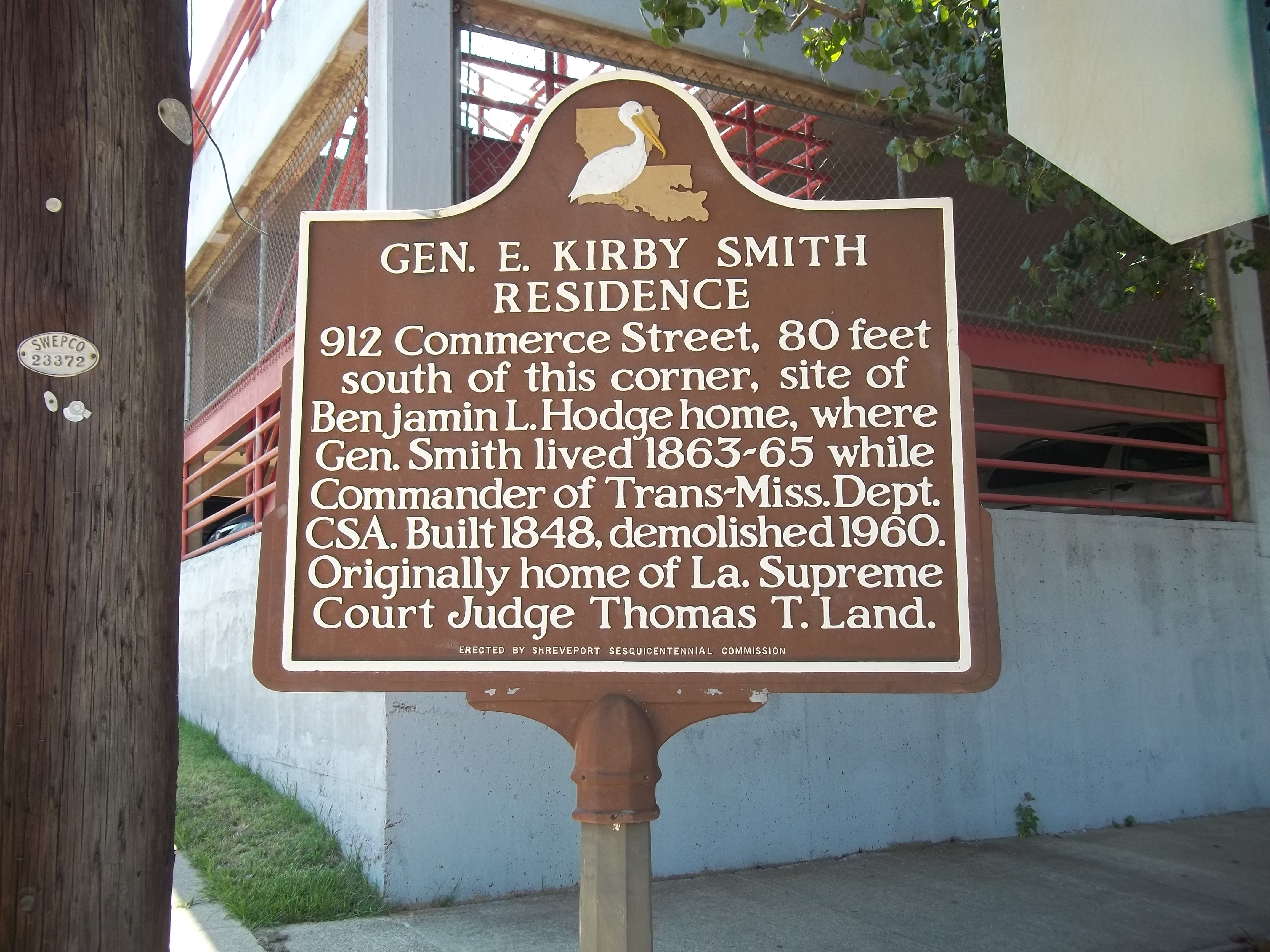 Historical marker of residence of Lt.Gen. E. Kirby Smith during the Civil War.